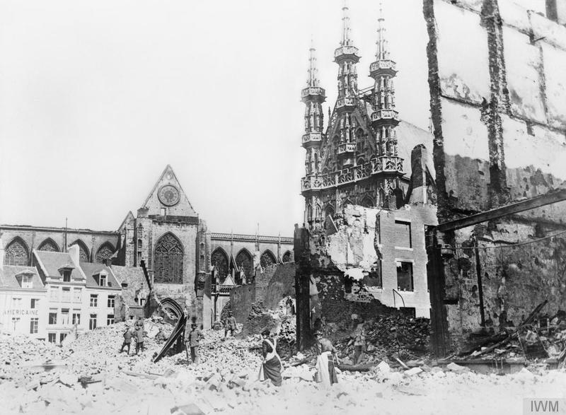 Damage To Louvain, Belgium, 1914 Civilian women pick their way over rubble and debris to reach a group of soldiers standing outside the ruined Hotel de Ville, Louvain, Belgium.